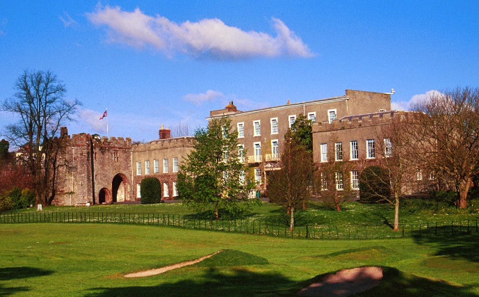 Torre Abbey in Torquay (Great Britain), exterior view